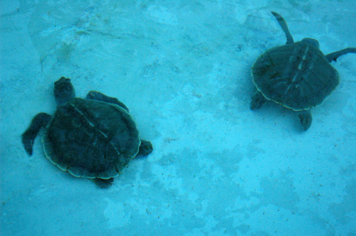 Author: Gaizka Nuñez